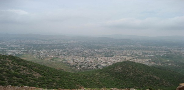 ajmer